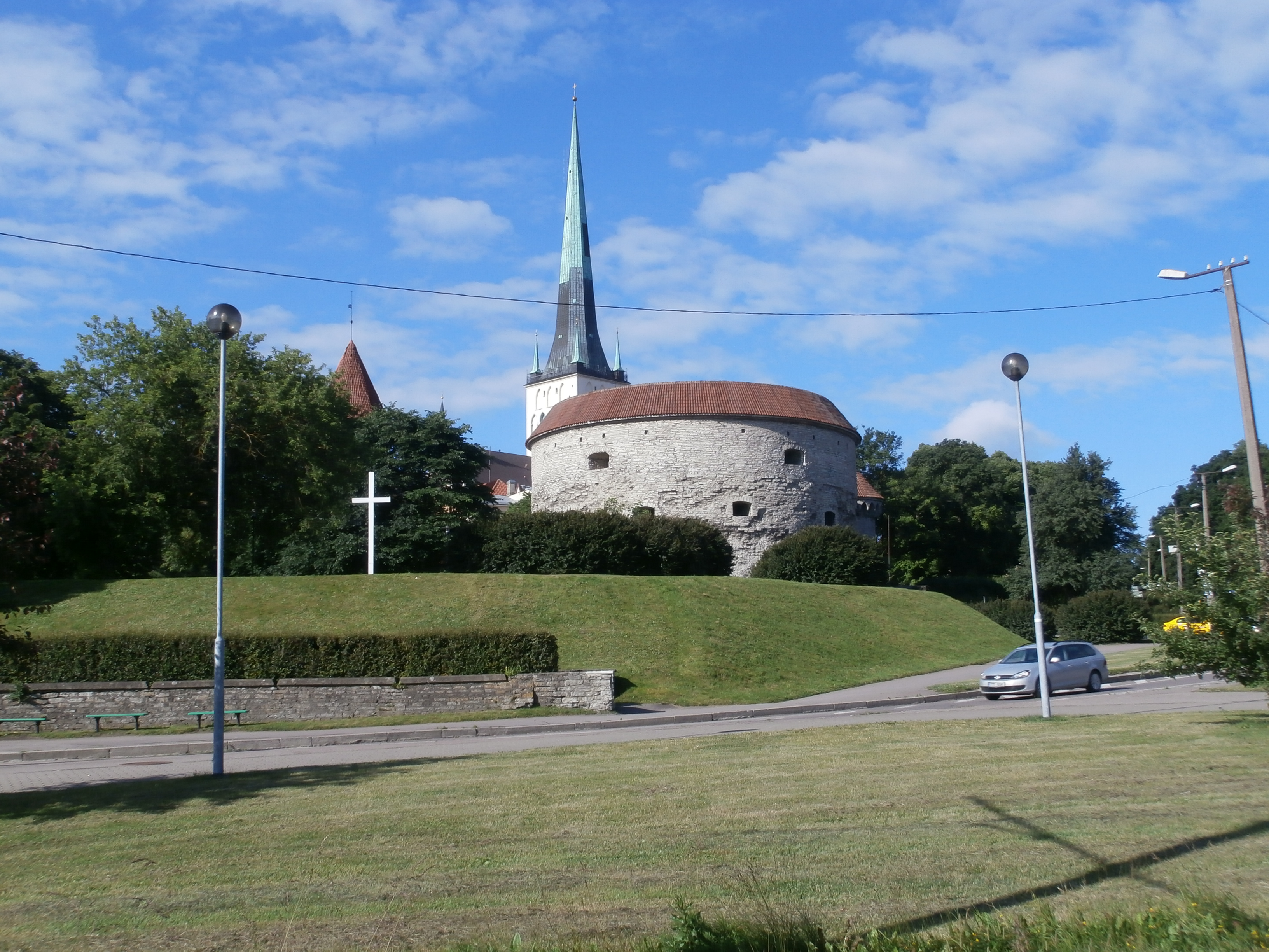 Fat Margaret as Estonian Paks Margareeta in Tallinn 2 July 2013